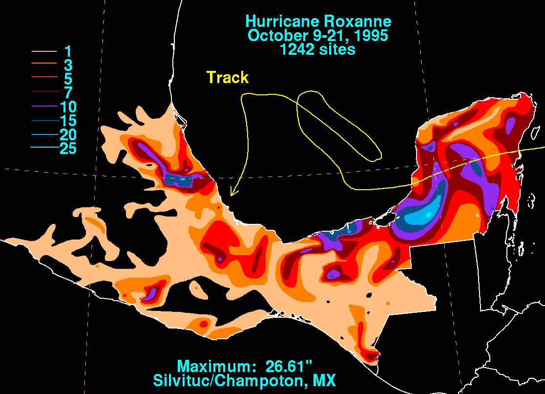 Storm total rainfall map of Hurricane Roxanne during October 1995.